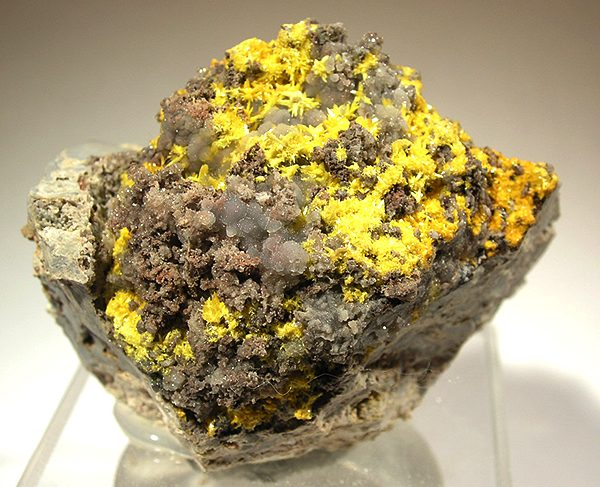 Kleinite Locality: McDermitt Mine (Cordero Mine; Old Cordero Mine), Opalite District, Humboldt County, Nevada, USA (Locality at ) A RARE HABIT of acicular kleinite crystals, perched on quartz, from this famous locality for the species. This is a very unusual form for the crystals, and a large piece as well that is quite showy. 5.3 x 4 x 4 cm